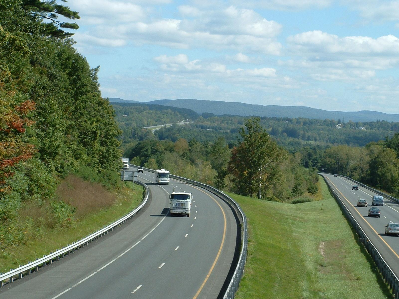 A view of the Mass Pike looking east from Stockbridge Rd (Rte. 102), Stockbridge, Massachusetts.